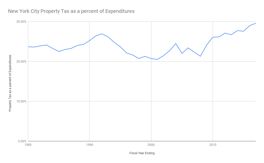 New York City Property Tax as a percent of Expenditures based on data at